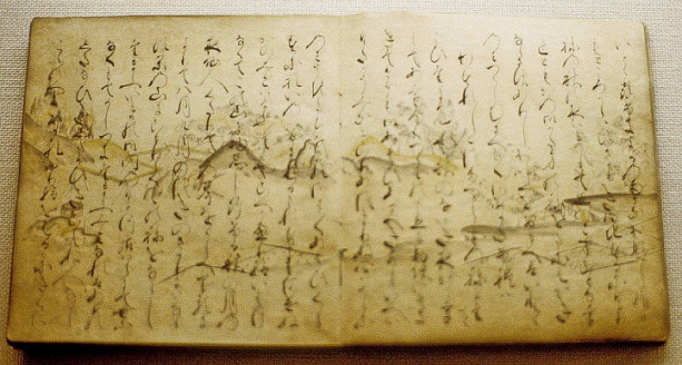 Manuscript Book of The Tale of the Matsuura Shrine, ink, color and gold on paper, 13th century, The eldest manuscript of the roman. 17.5cm height, Tokyo National Museum